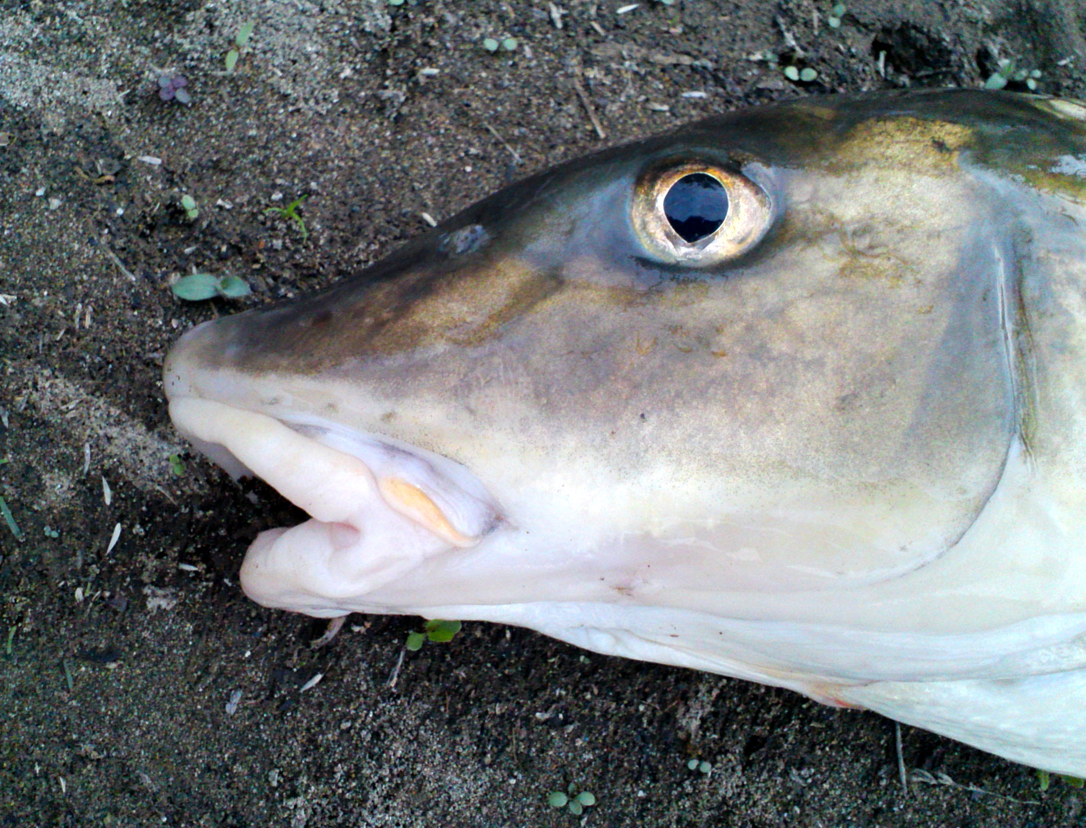 Barbel steed. Chikuma-gawa River. Nagano pref., Japan.